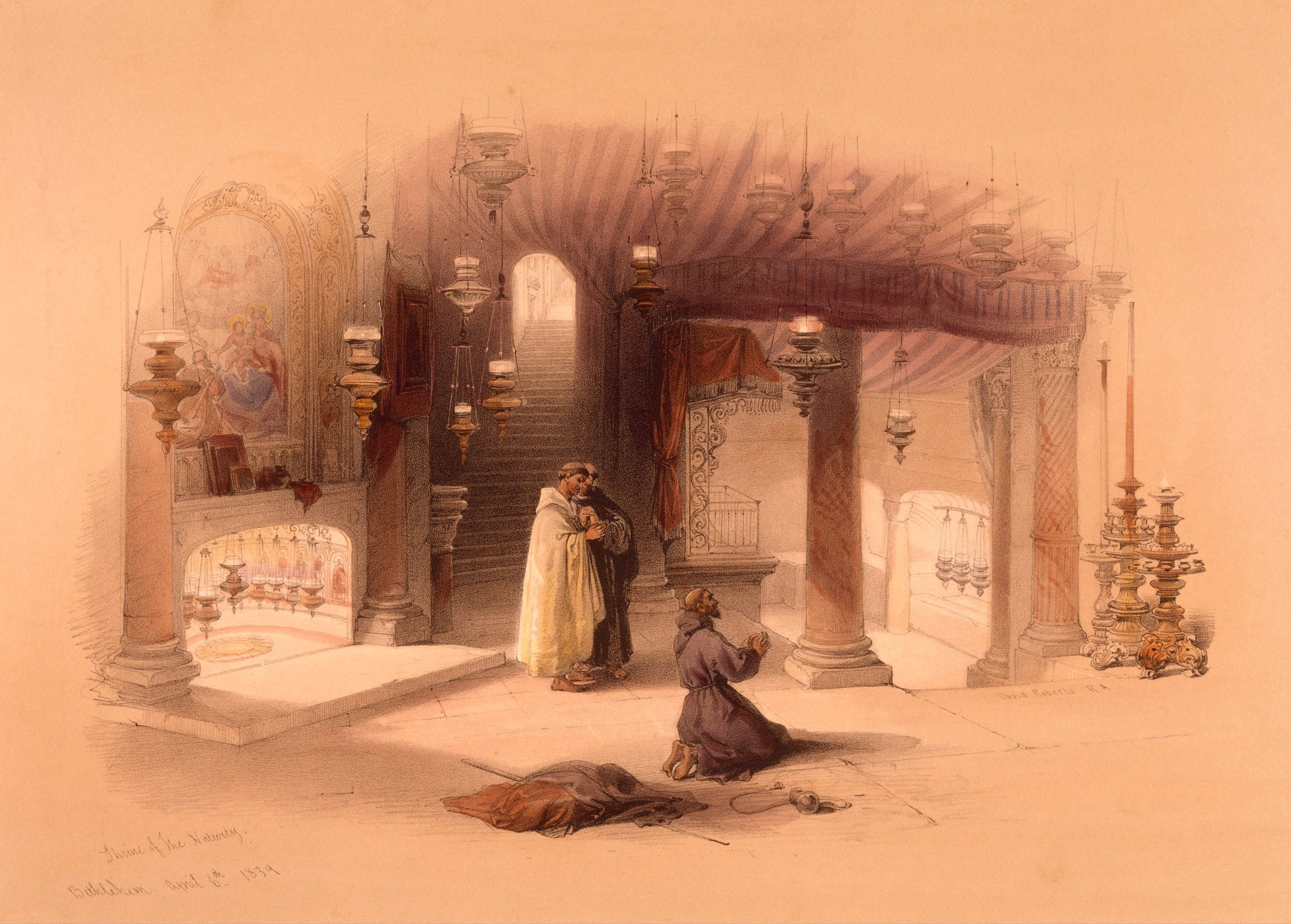 The Shrine of the Holy Nativity, Bethlehem-1849). Prints.